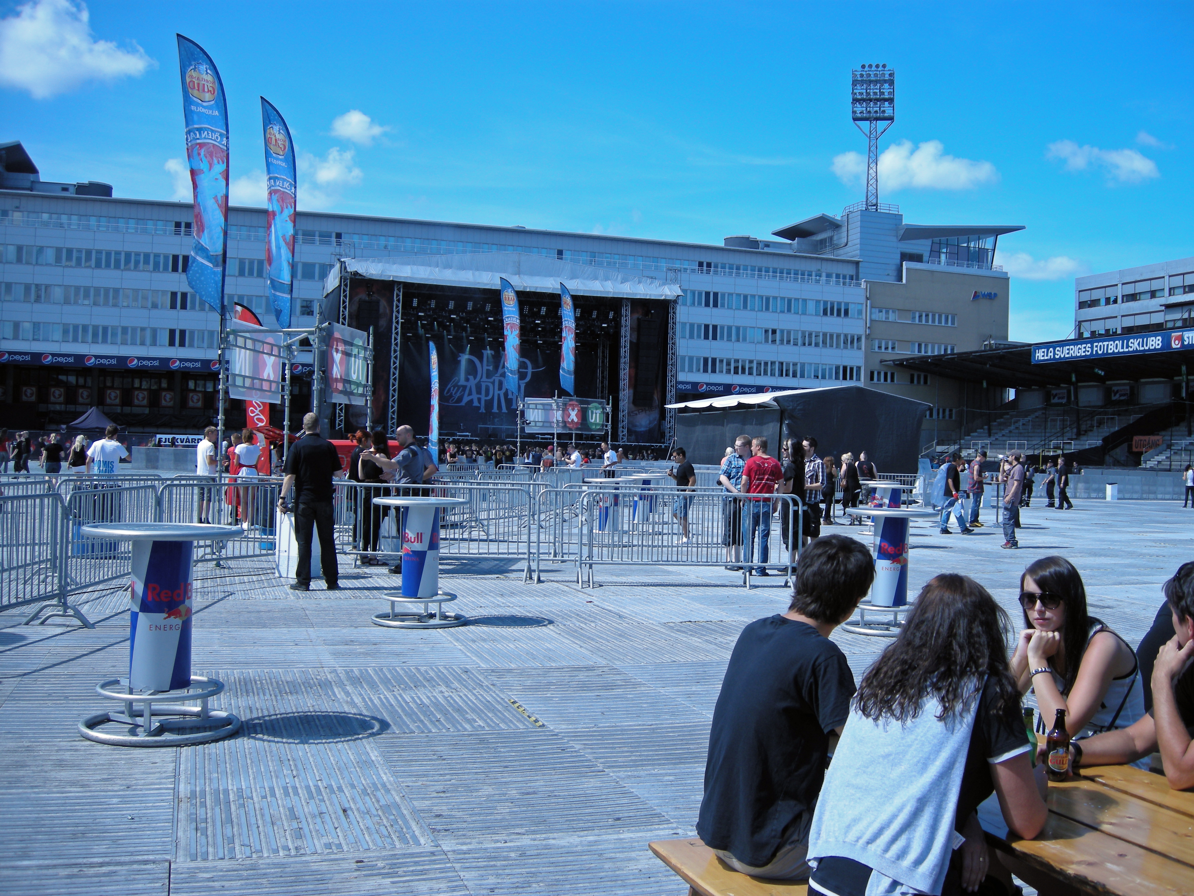 Apollo stage at Sonisphere Festival, Stockholm, Sweden 2011